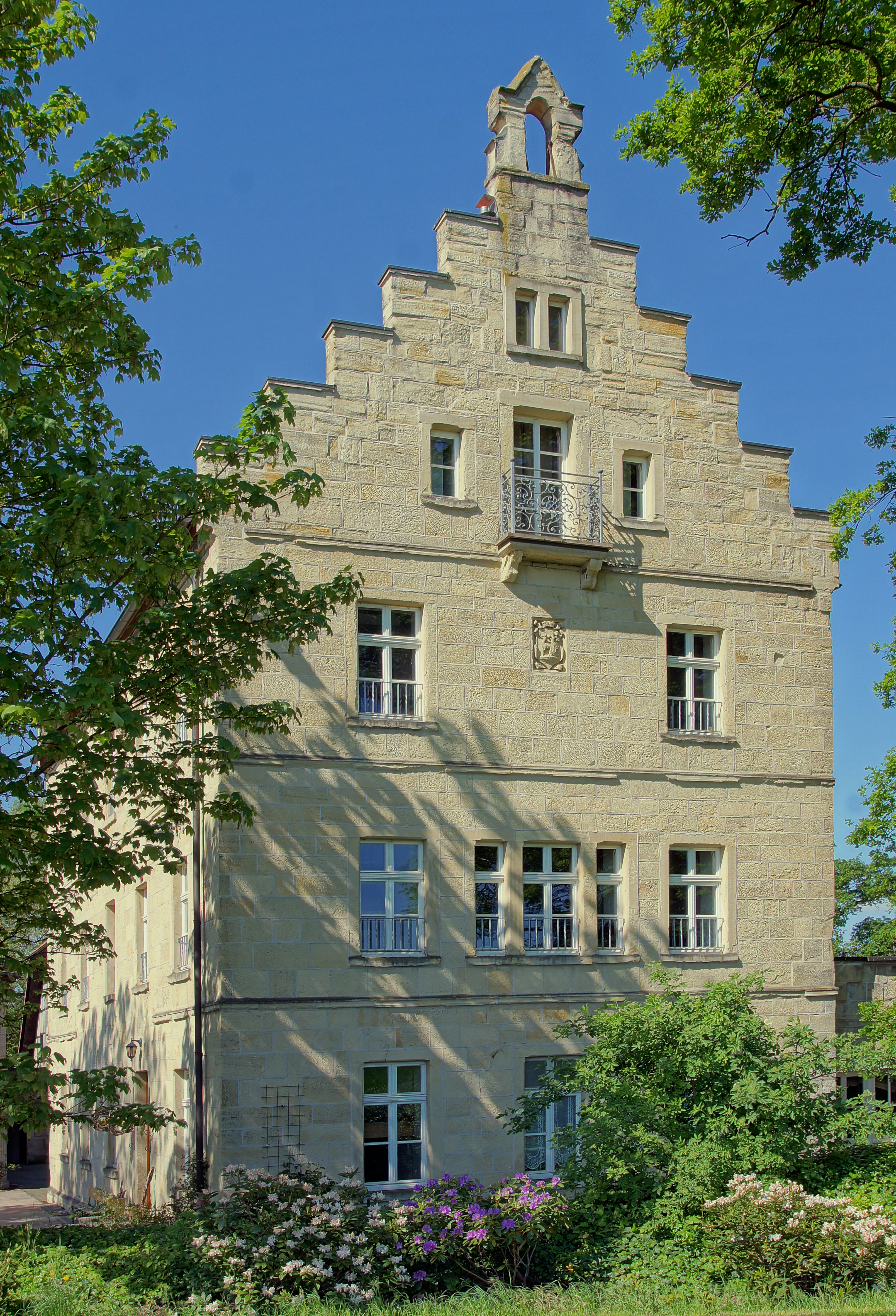 Historic Farmhouse in Nottuln, district of Coesfeld, North Rhine-Westphalia, Germany. This is a photograph of an architectural monument.